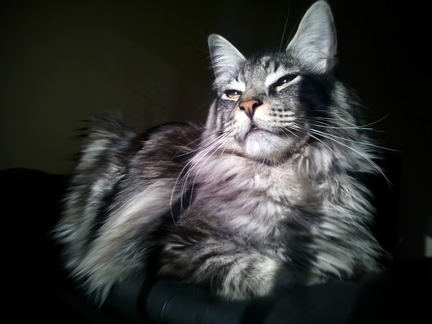 A gorgeous black silver tabby with white maine coon